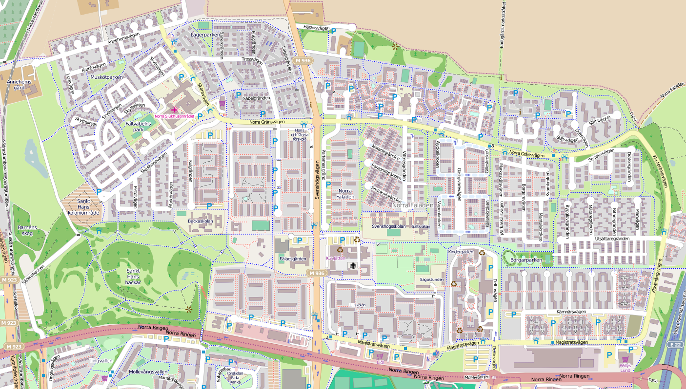 This map of Norra Fäladen was created from OpenStreetMap project data, collected by the community. This map may be incomplete, and may contain errors. Don't rely solely on it for navigation.